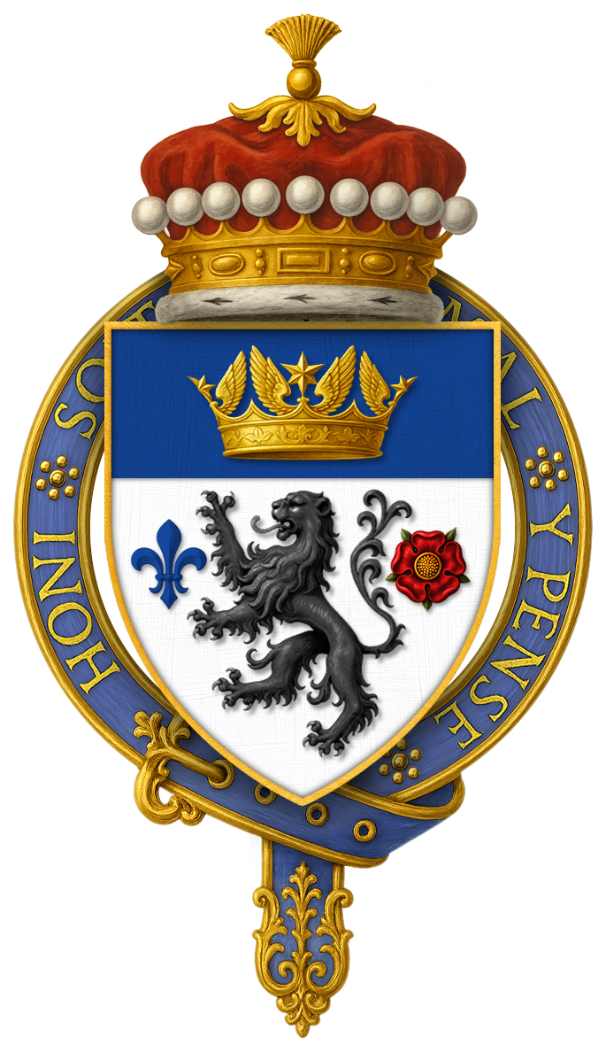 Garter-encircled coat of arms of Charles Portal, 1st Viscount Portal of Hungerford, KG, as displayed on his Order of the Garter stall plate in St. George's Chapel, Windsor Castle.